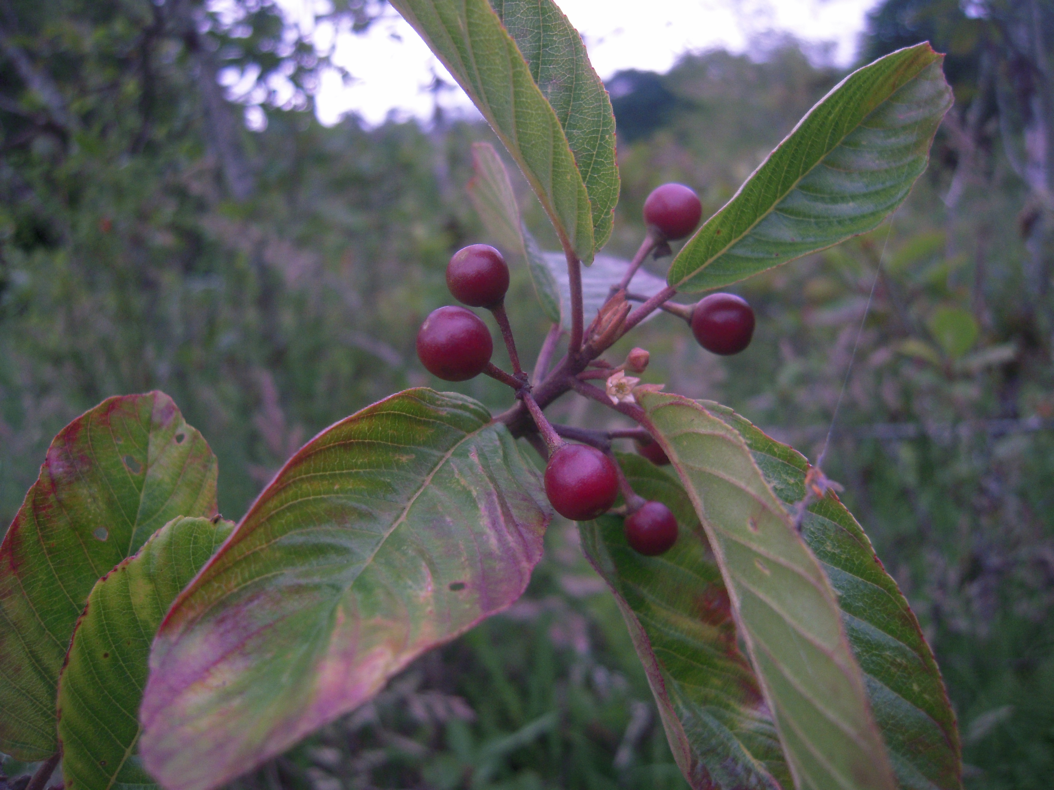 Taken at McClane Creek Nature Trail near Olympia, WA